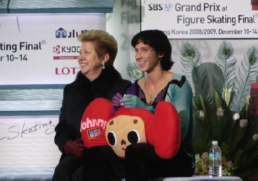 Johnny Weir in the kiss and cry with coach Galina Zmievskaya at the 2008-2009 Grand Prix Final